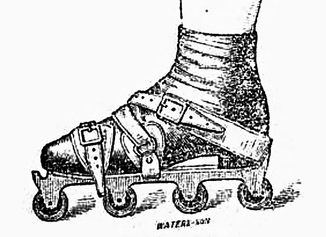 Inline-Skates patented by Robert John Tyers, 1823